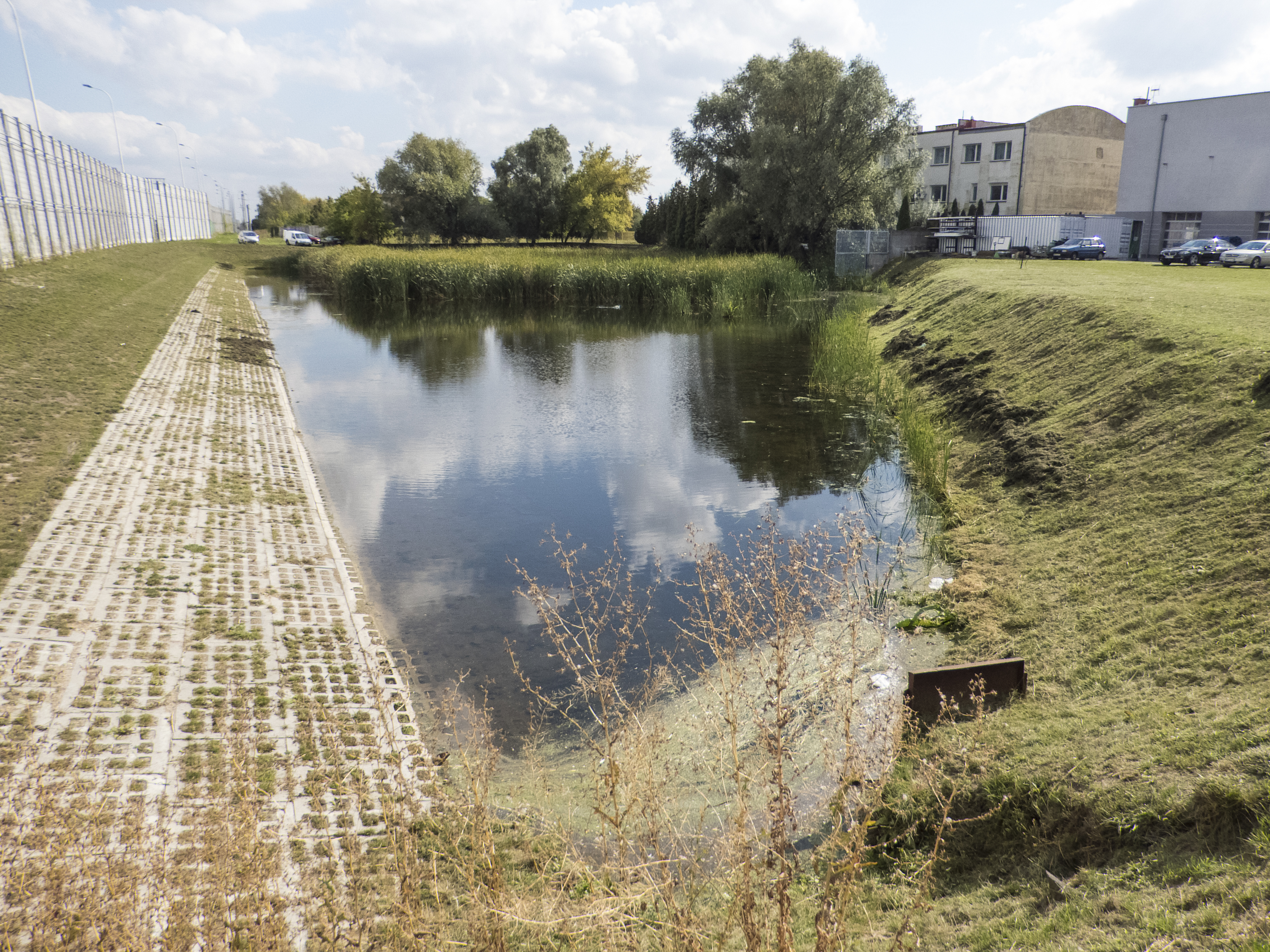 Glinianki Załuskie in Warsaw, Włochy district - bigger od two ponds.